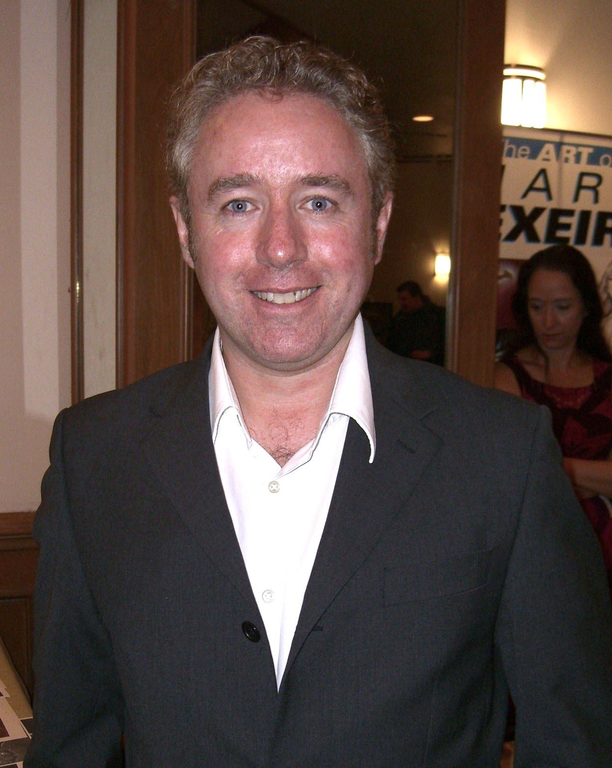 Comic book creator Mark Millar at the Big Apple Convention in Manhattan, October 2, 2010. This photo was created by Luigi Novi. It is not in the public domain, and use of this file outside of the licensing terms is a copyright violation.